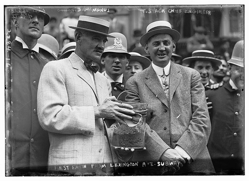 IRT Lexington Avenue Line Bain News Service,, publisher. 1st Earth from Lexington Ave. subway McManus & Stack, chief eng. [between 1910 and 1915] 1 negative : glass ; 5 x 7 in. or smaller. Notes: Title from unverified data provided by the Bain News Service on the negatives or caption cards. Forms part of: George Grantham Bain Collection (Library of Congress). Format: Glass negatives. Repository: Library of Congress, Prints and Photographs Division, Washington, D.C. 20540 USA, General information about the Bain Collection is available at Persistent URL: Call Number: LC-B2- 2284-16